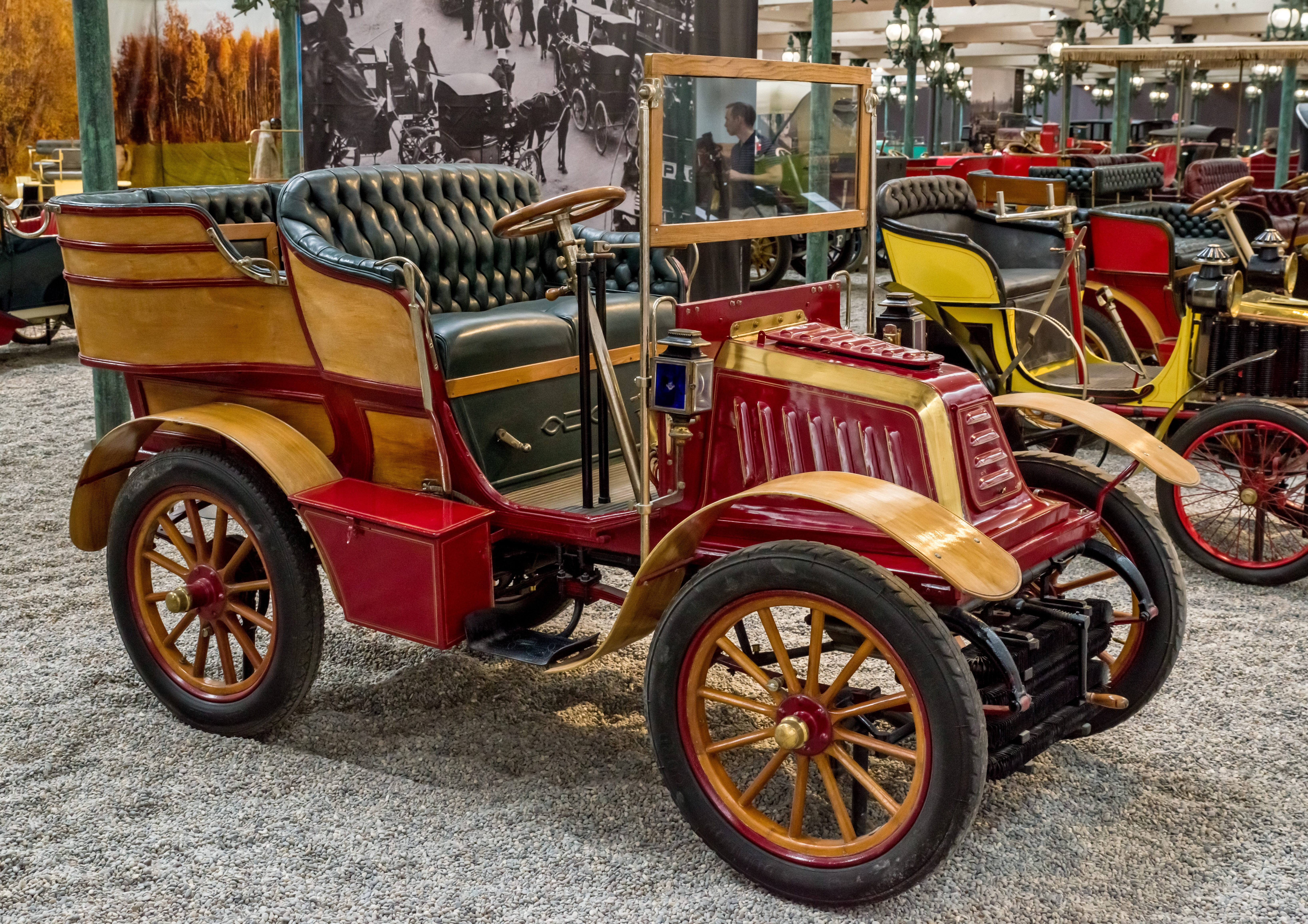 pictures from the Cité de l’Automobile – Musée National – Collection Schlump in Mulhouse, France ptictures from the 10. may 2018